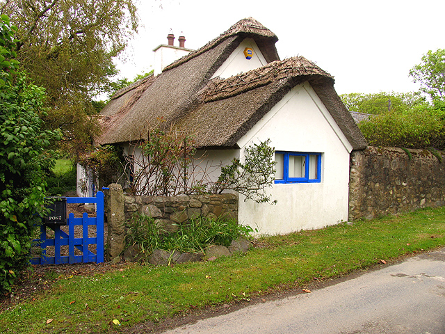 Thatched Cottage near Bannow Bay. This cottage on the road down to the beach is typical in style of the older buildings in this area.